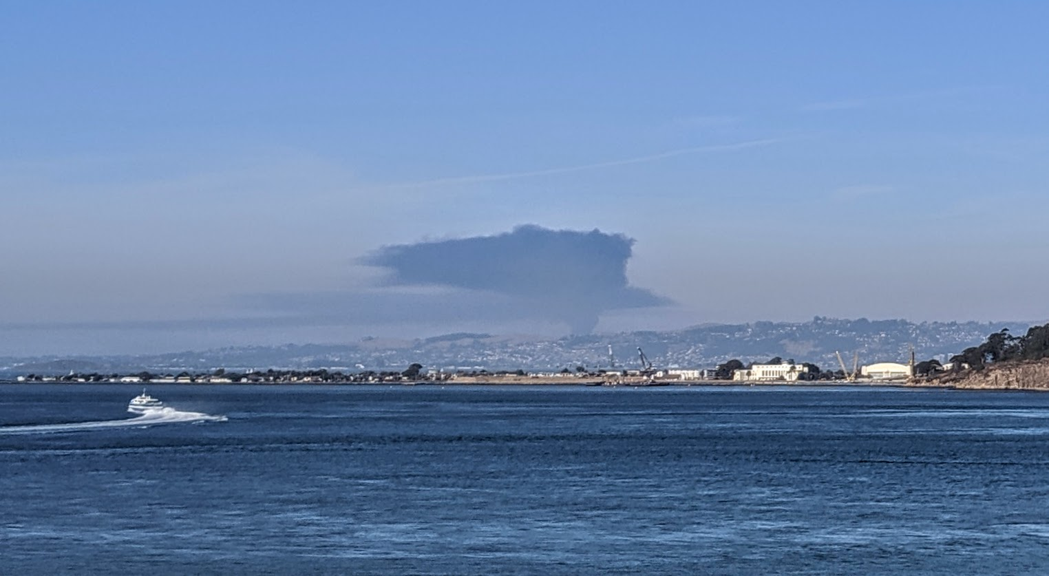 The Nustar Fire (Crockett, California) smoke plume from the 7th floor of 345 Spear Street, San Francisco, a few hours after the first started.